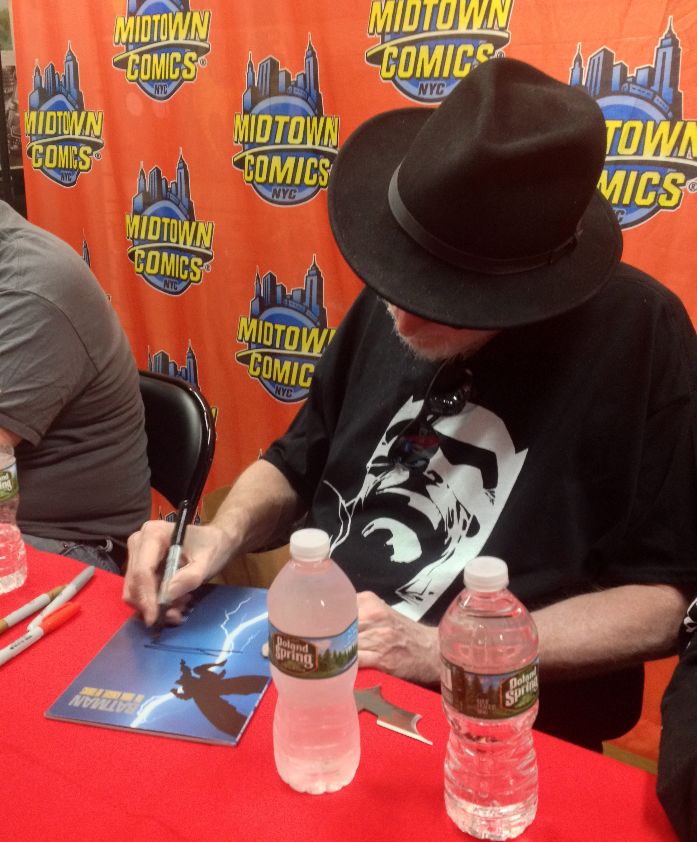 Comics writer/artist Frank Miller signing a copy of The Dark Knight Returns during an appearance at Midtown Comics Downtown September 17, 2016, the third annual Batman Day, when DC Comics celebrates the creation of the character Batman. This photo was created by Luigi Novi. It is not in the public domain, and use of this file outside of the licensing terms is a copyright violation.